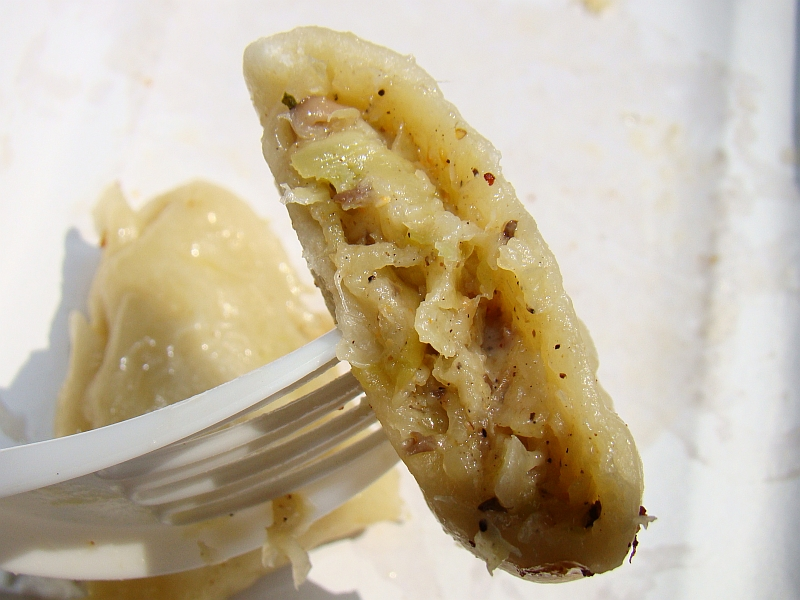 Dumplings with sauerkraut